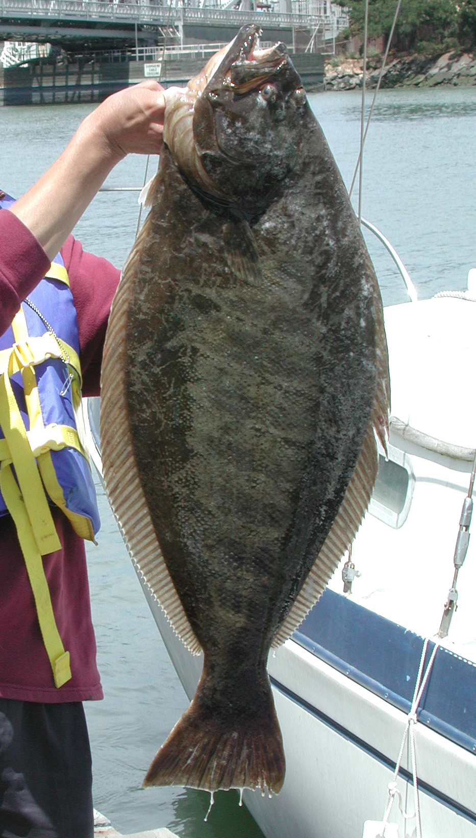 3 foot long California Halibut